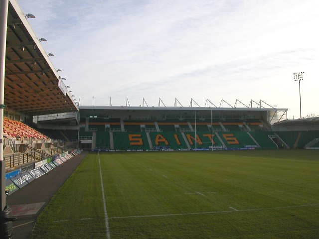 Grandstand, Northampton Saints Rugby Club, Northampton.